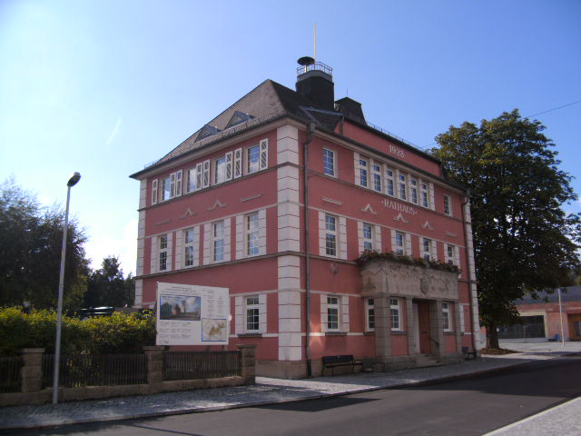 Schönwald cityhall, Germany